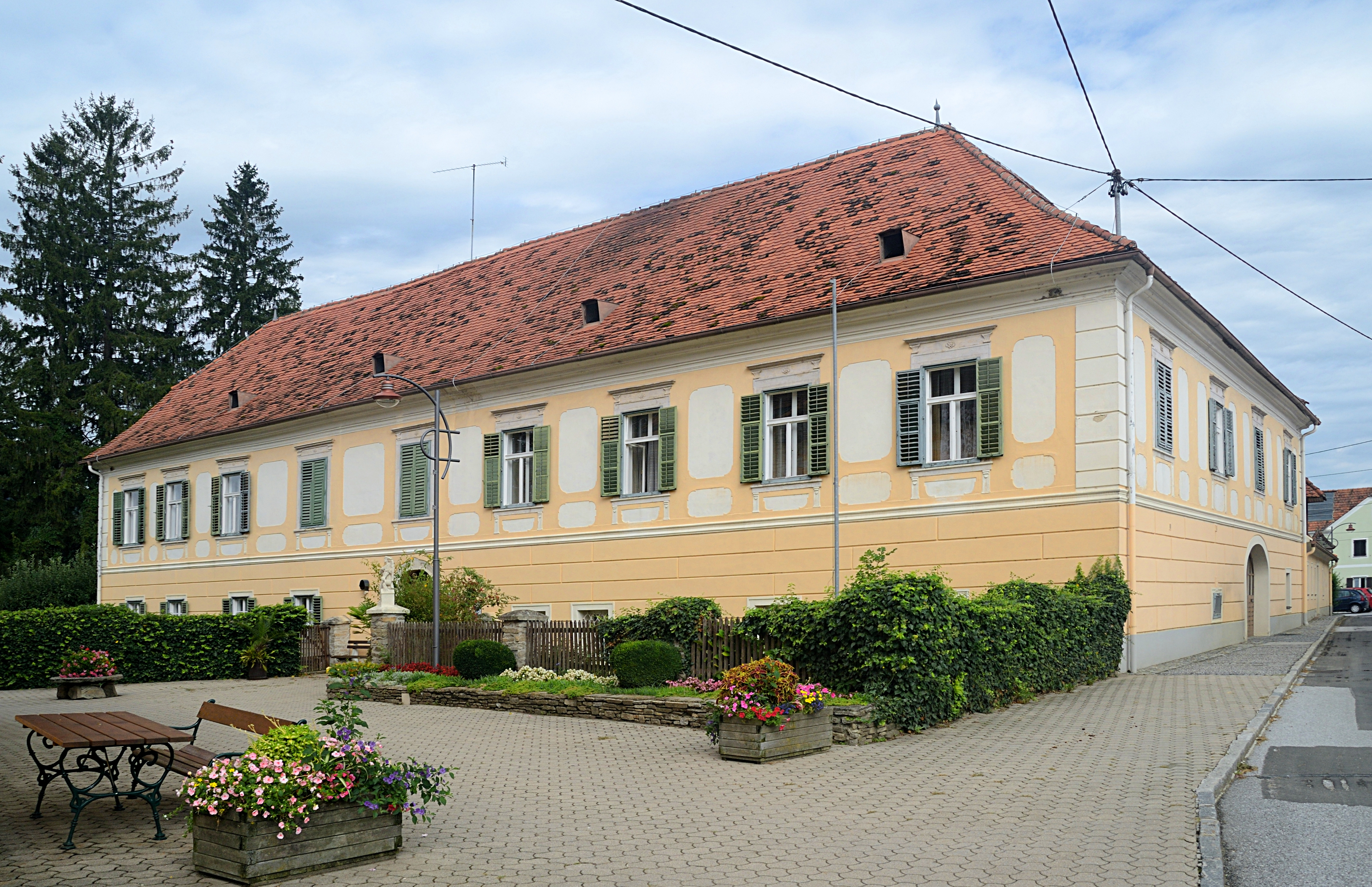 The rectory in Grafendorf bei Hartberg, Styria, is protected as a cultural heritage monument and as a cultural property by the Hague Convention.